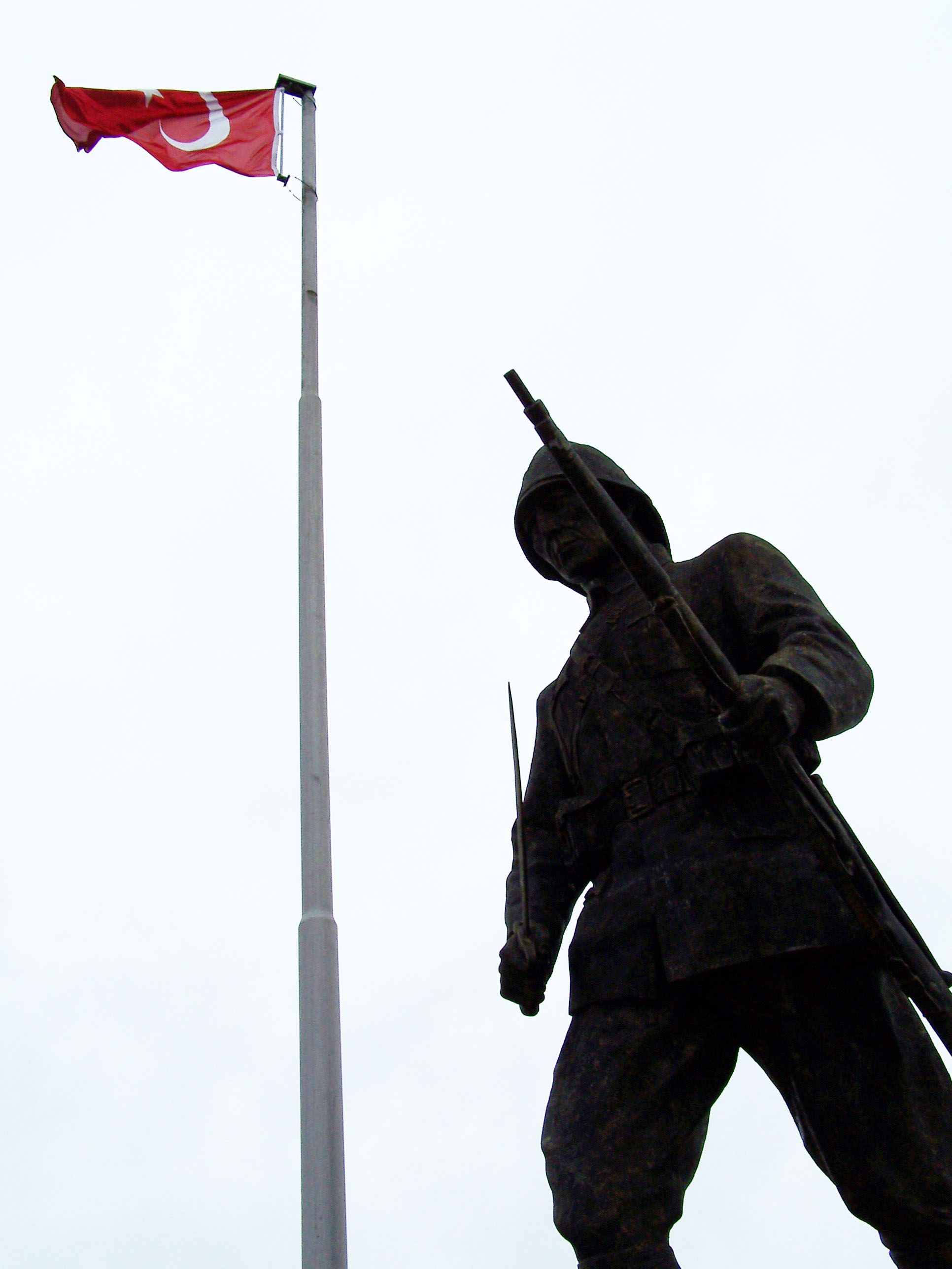 Statue of Ottoman Turkish soldier in Çanakkale, Turkey